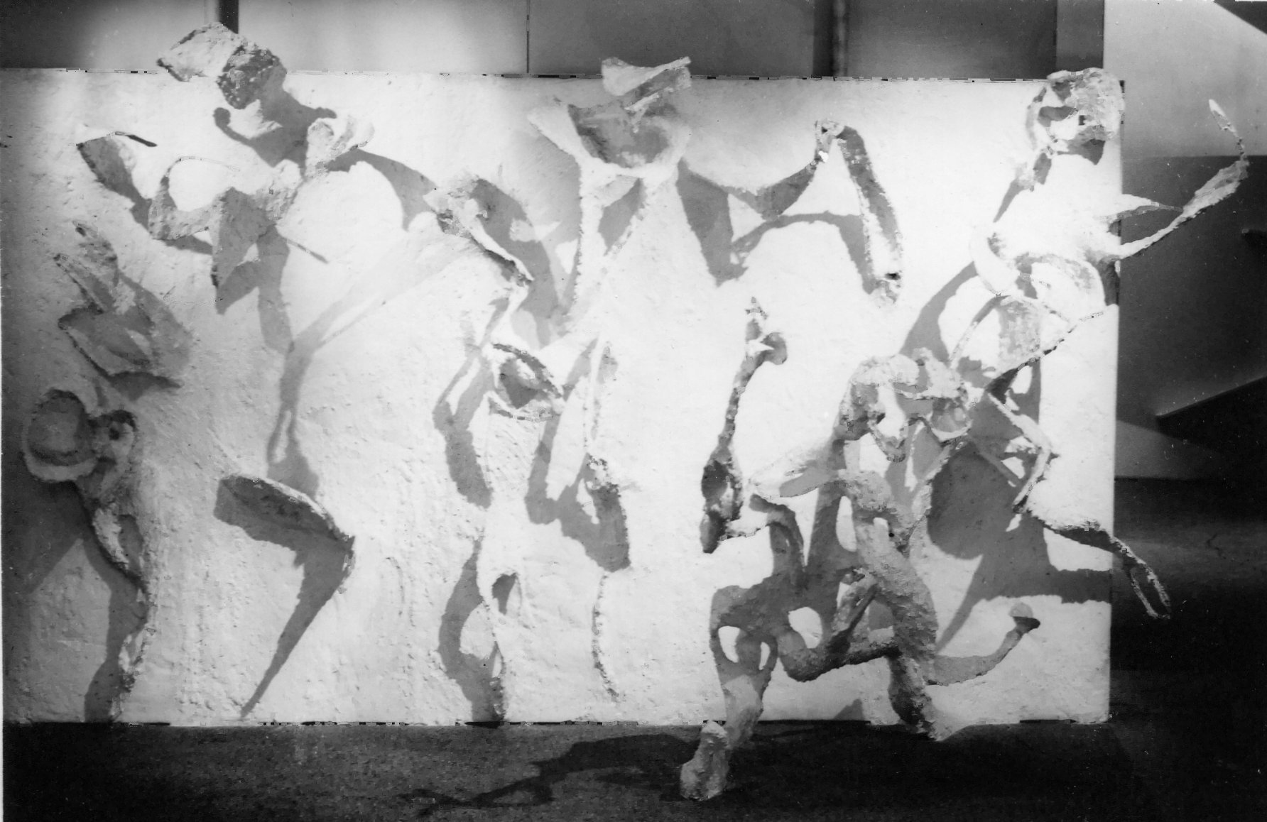 Sarah Jackson, This is Tomorrow exhibition, London, 1956, plaster sculpture wall